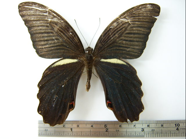 Kerry took this picture at his house on 16 July 2005 Scientific name: Papilio protenor ♂ Date of collection: VI 1996 Place of collection: Taipei city, Taiwan